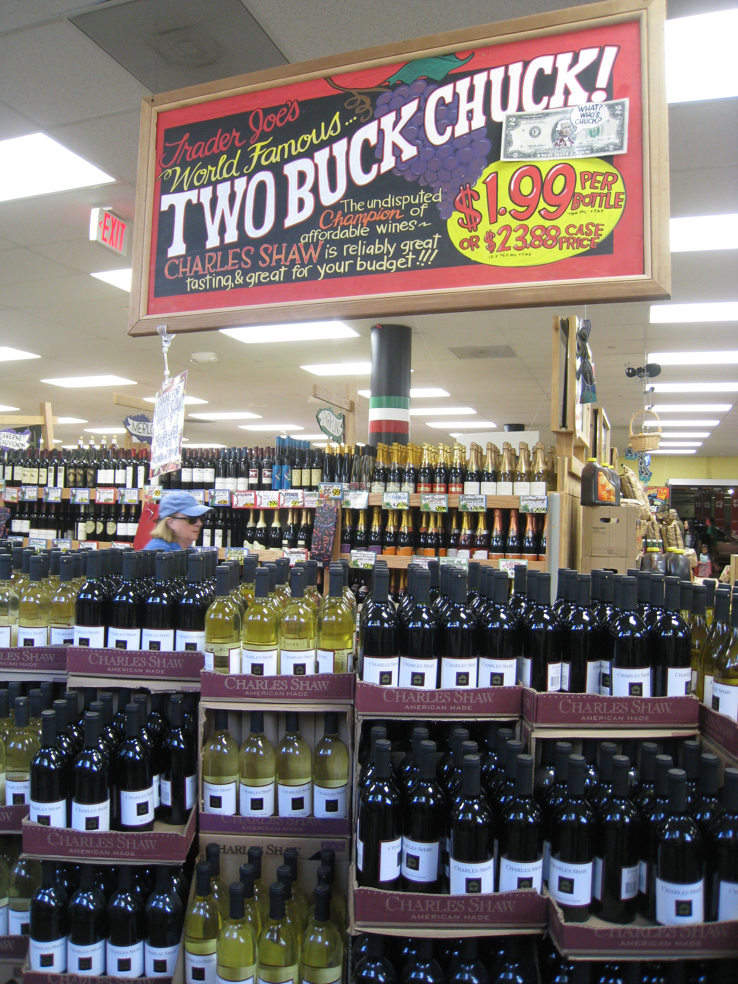 Charles Shaw wine ("Two Buck Chuck") for sale at Trader Joe's.